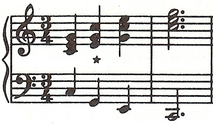 Umkehrungsquartsextakkord